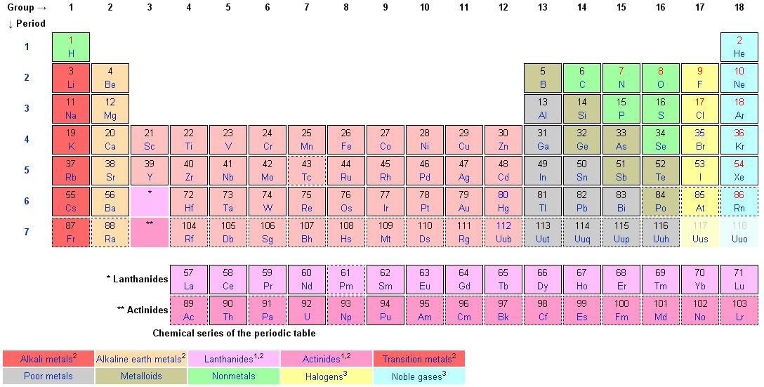 A wikipedia screenshot of the periodic table